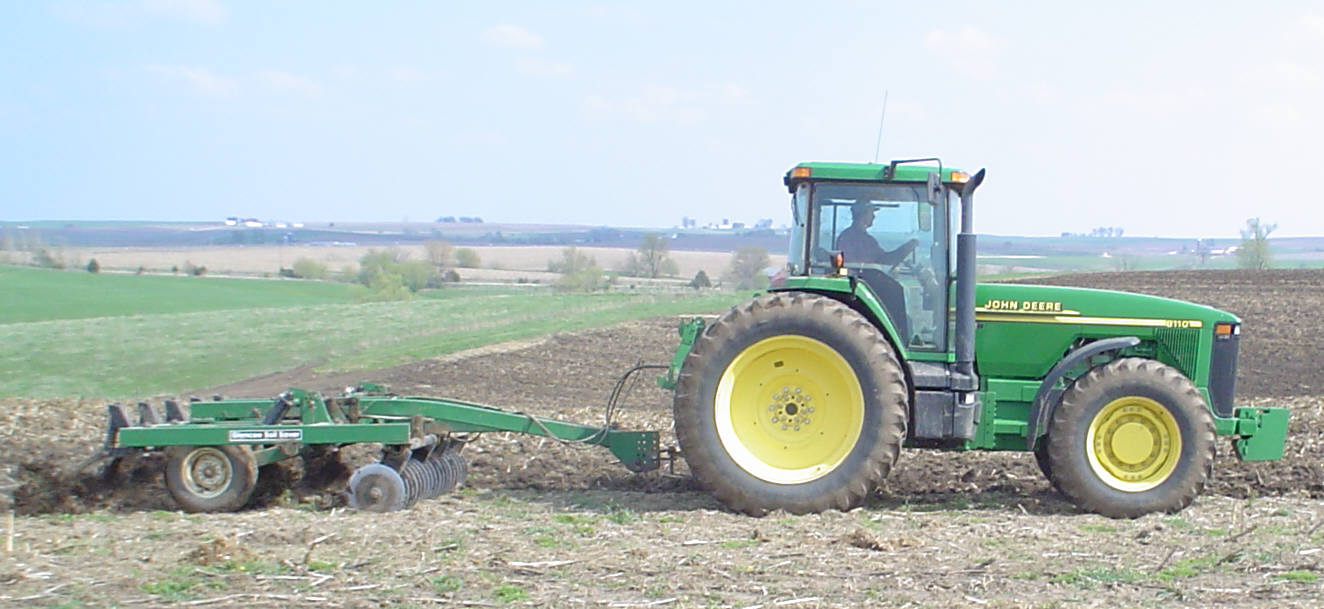 A John Deere 8110 plowing a field using a chisel plow somewhere in the USA. The tractor is one of the more modern John Deere tractors, having been built in 2001. The tractor has a transmission that does not require the operator to depress the clutch when shifting gears. The cab is built for operator efficiency and comfort. The cab is climate controlled and has a radio with the AM/FM/Weather Radio bands. All of the main controls for the tractor are built into the right armrest, and are positioned so that the most important controls would be at the operator's fingertips. This photo was taken on my parents' farm by me in April of 2004.